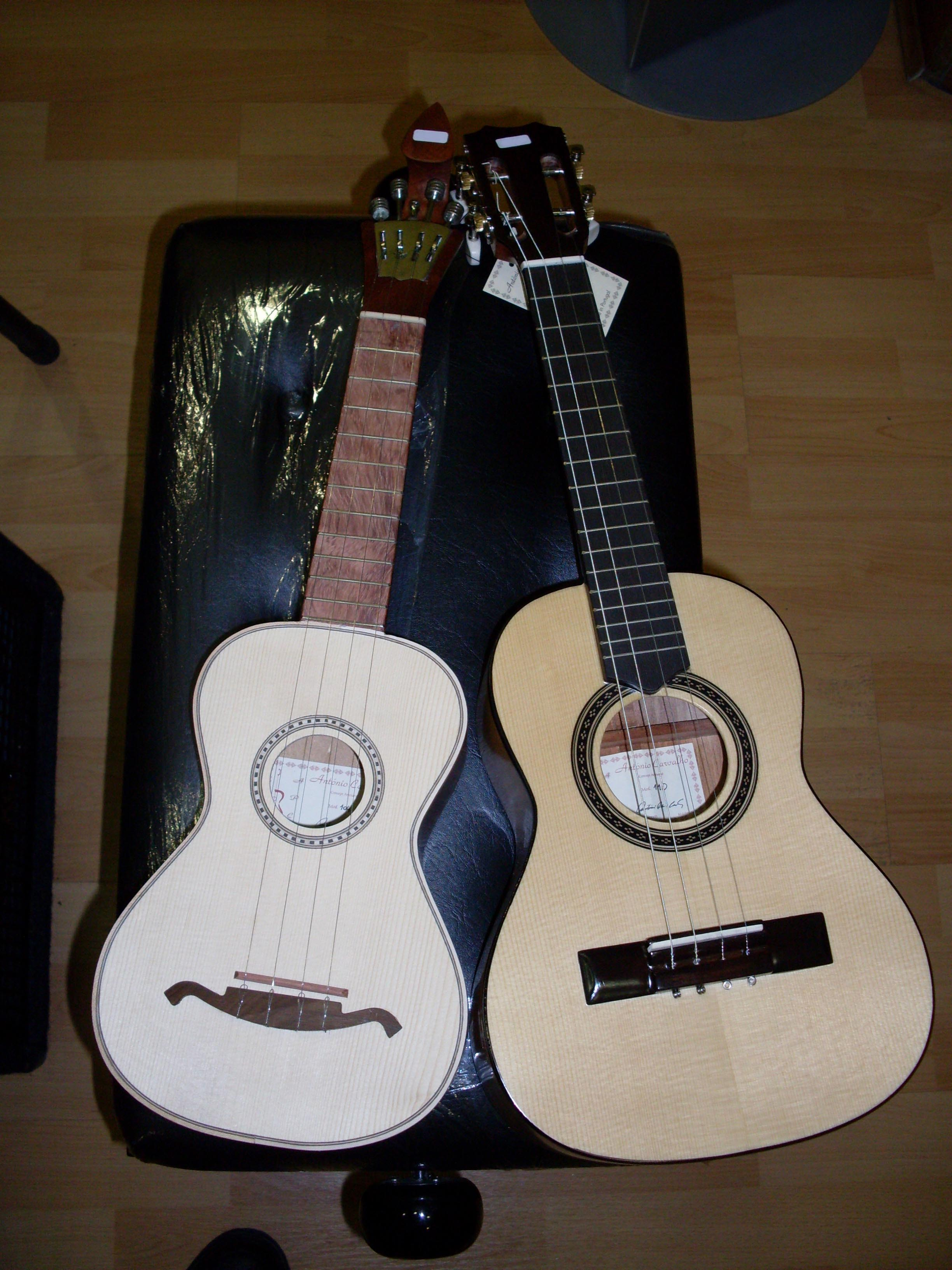 Two cavquinhos: Minho cavaquinho at left; Brazilian cavaquinho at right.